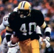 Green Bay Packers' running back Eddie Lee Ivery rushing the ball against the St. Louis Cardinals in the 1982 NFC First Round Playoff Game on January 8, 1983.